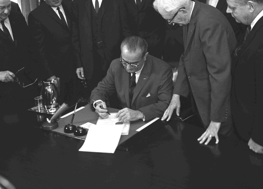 President Lyndon B. Johnson signing the Constitutional Amendment on the Poll Tax.